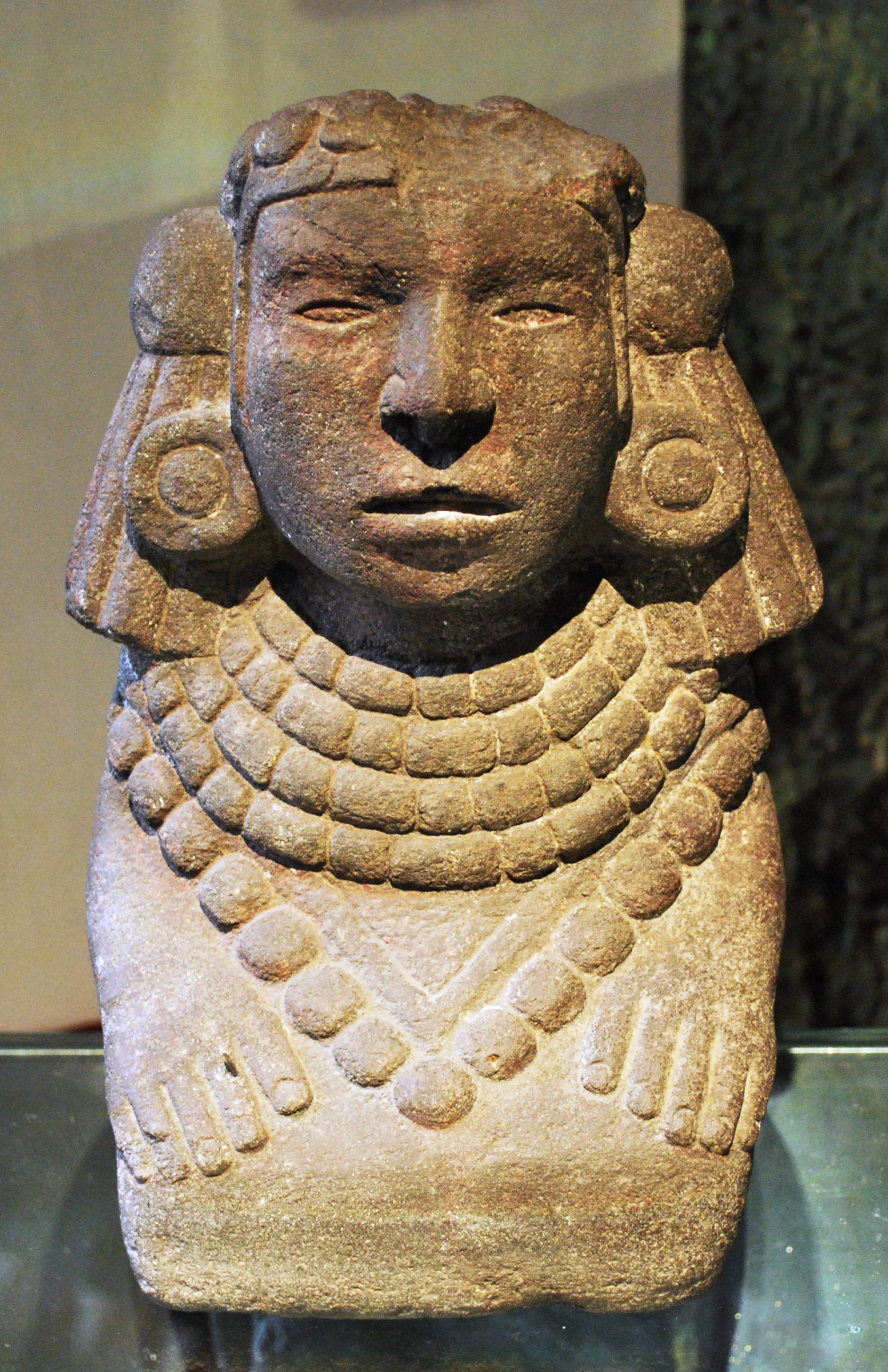 Stone figure of Tonatzin found at the Museo Nacional de las Intervenciones (ex Monastery of Churubusco) in Coyoacan borough, Mexico City